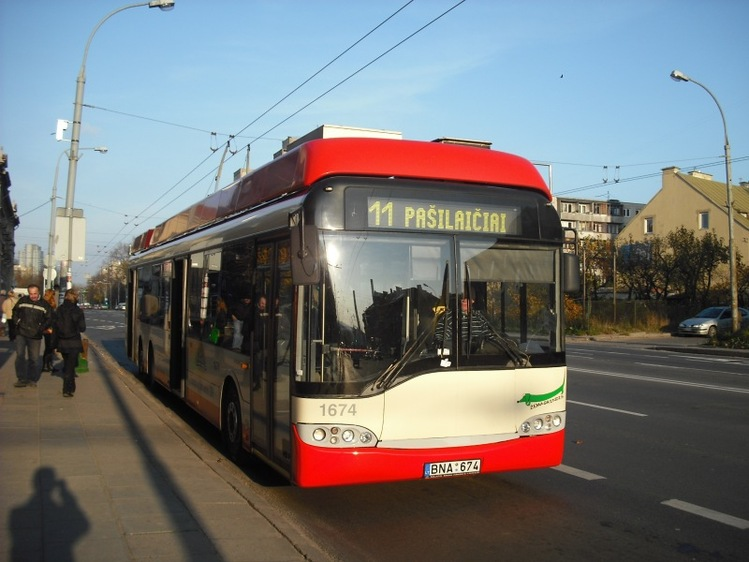 Solaris Trollino 15AC O-Bus in Vilnius, Lithuania. 26 October 2008.